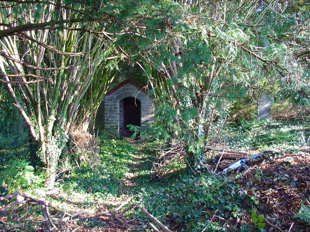 Penrydd Parish Church Porch of the abandoned church buried in undergrowth.